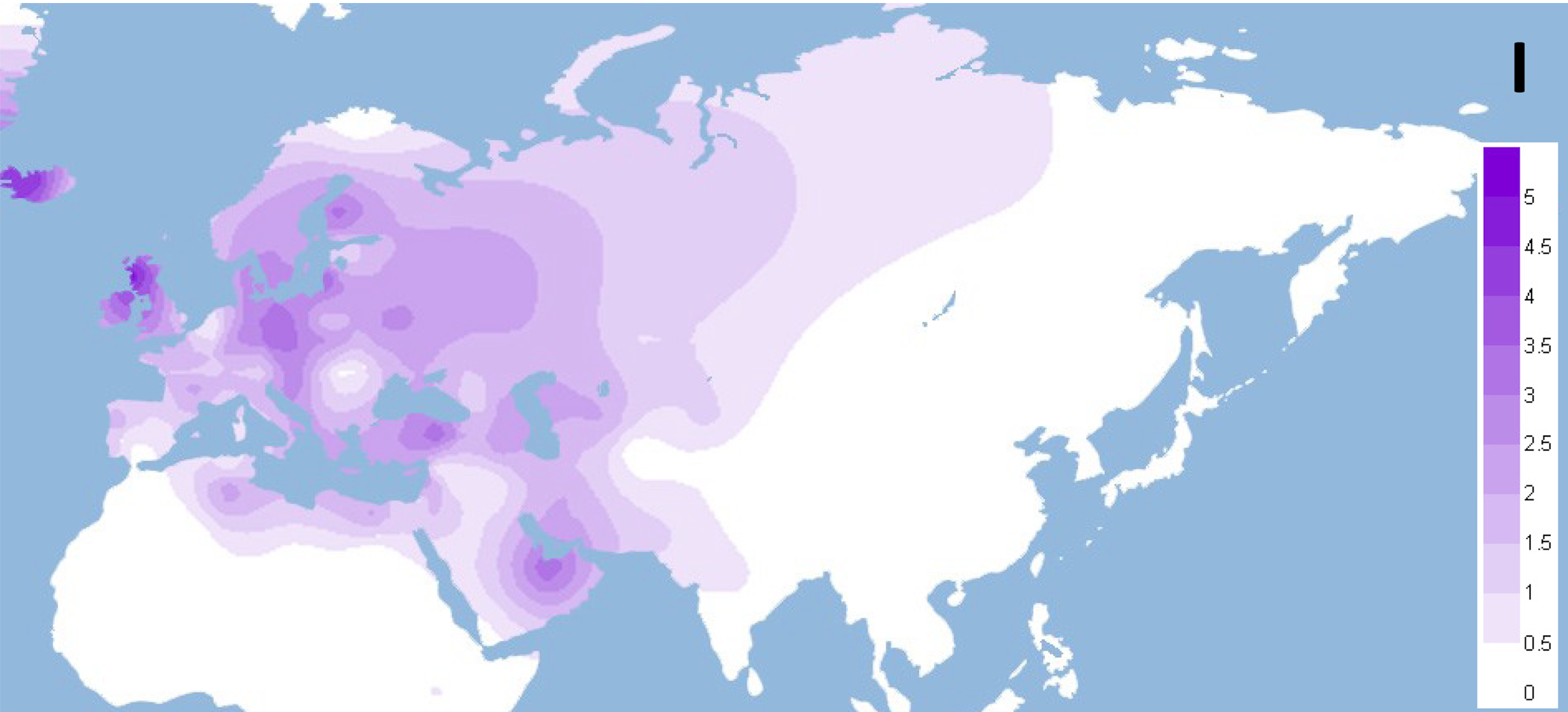 Spatial frequency distribution of mtDNA haplogroup I. Frequency scale is %.